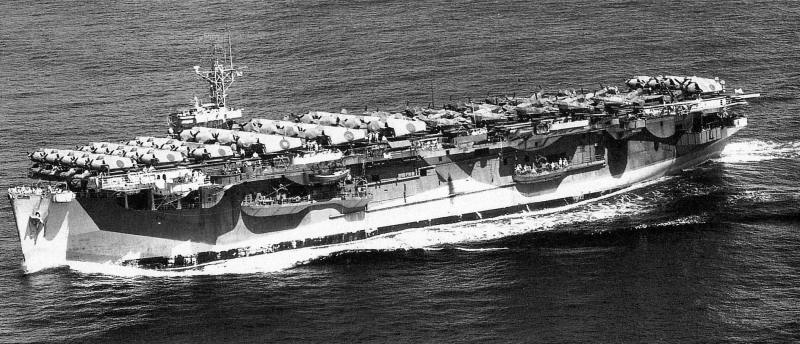 HMS Shah ferrying aircraft, possibly in January 1944, en route to Melbourne from San Francisco.